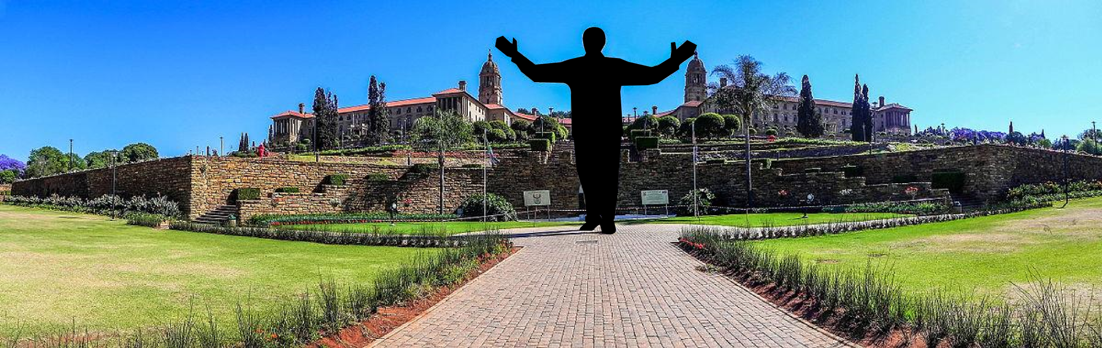 A reduxed version of the Mandela statue at the Union Buildings in Pretoria for copyright reasons. Freedom of Panorama in SA.